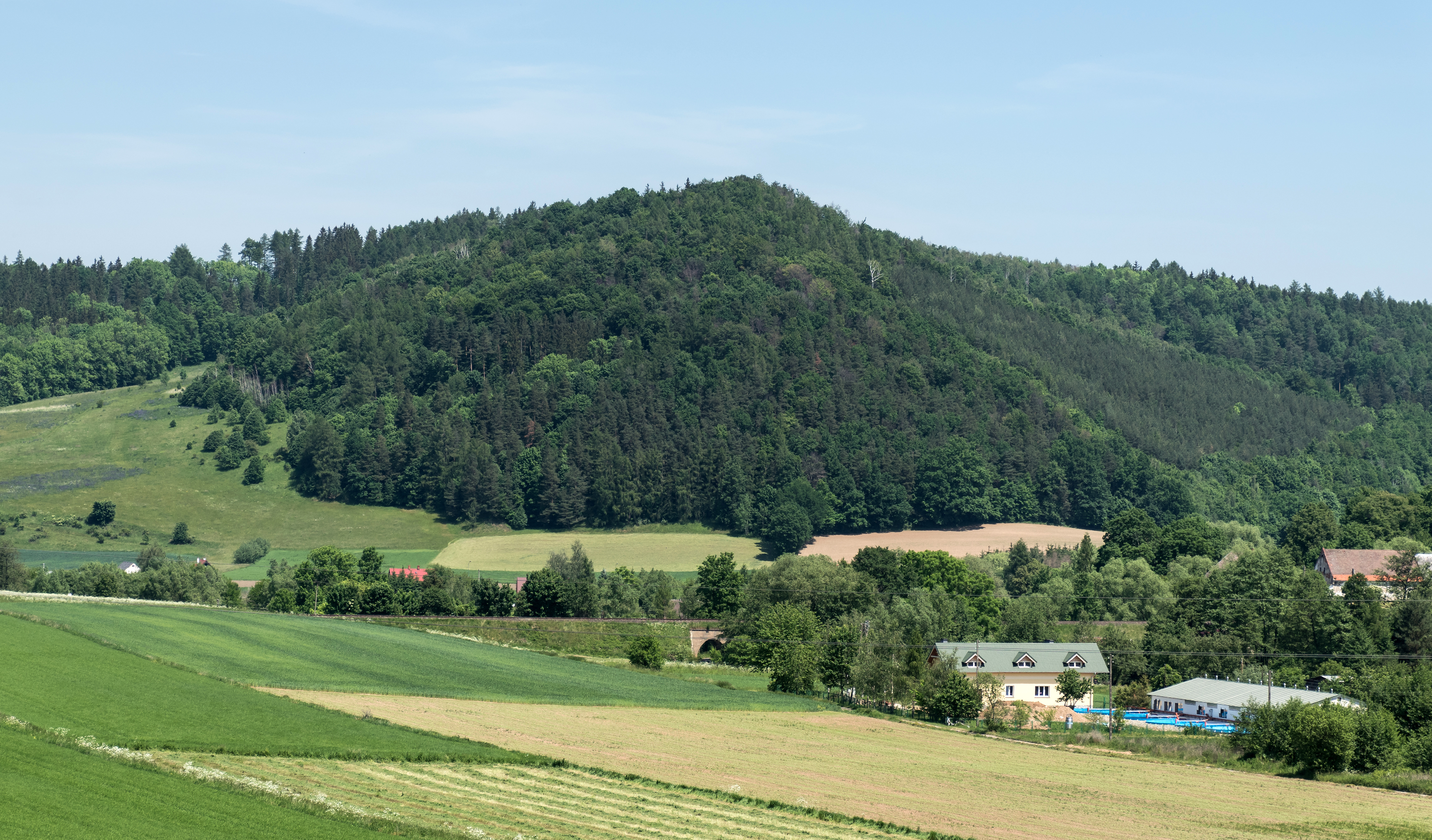 Sośnina, Wzgórza Rogówki, Sudetes